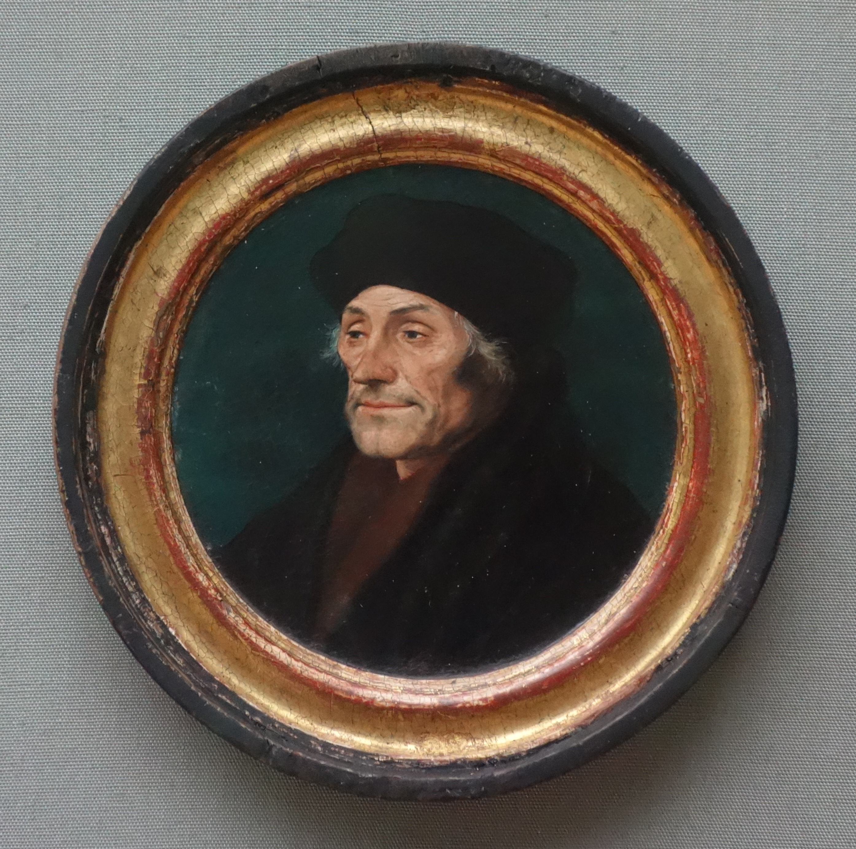 Painting of Erasmus by Hans Holbein the Younger, 1532. Kunstmuseum Basel